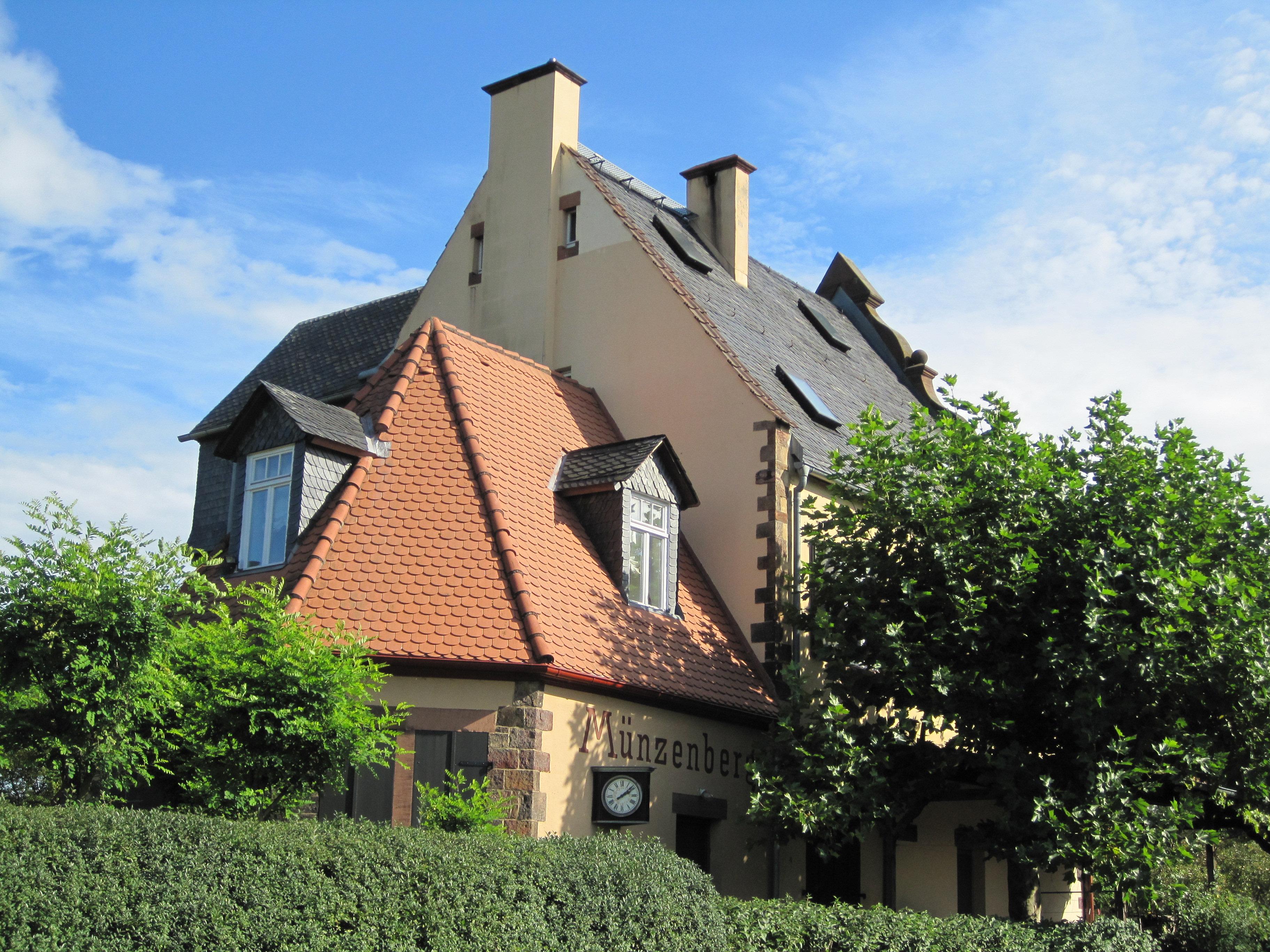 Münzenberg station, Münzenberg, Germany (→ weitere 1,291 Bilder von mir in der Galerie)AuthorStefan FlöperPermission (Reusing this file) cc-by-sa-3.0, gfdl 1.2+